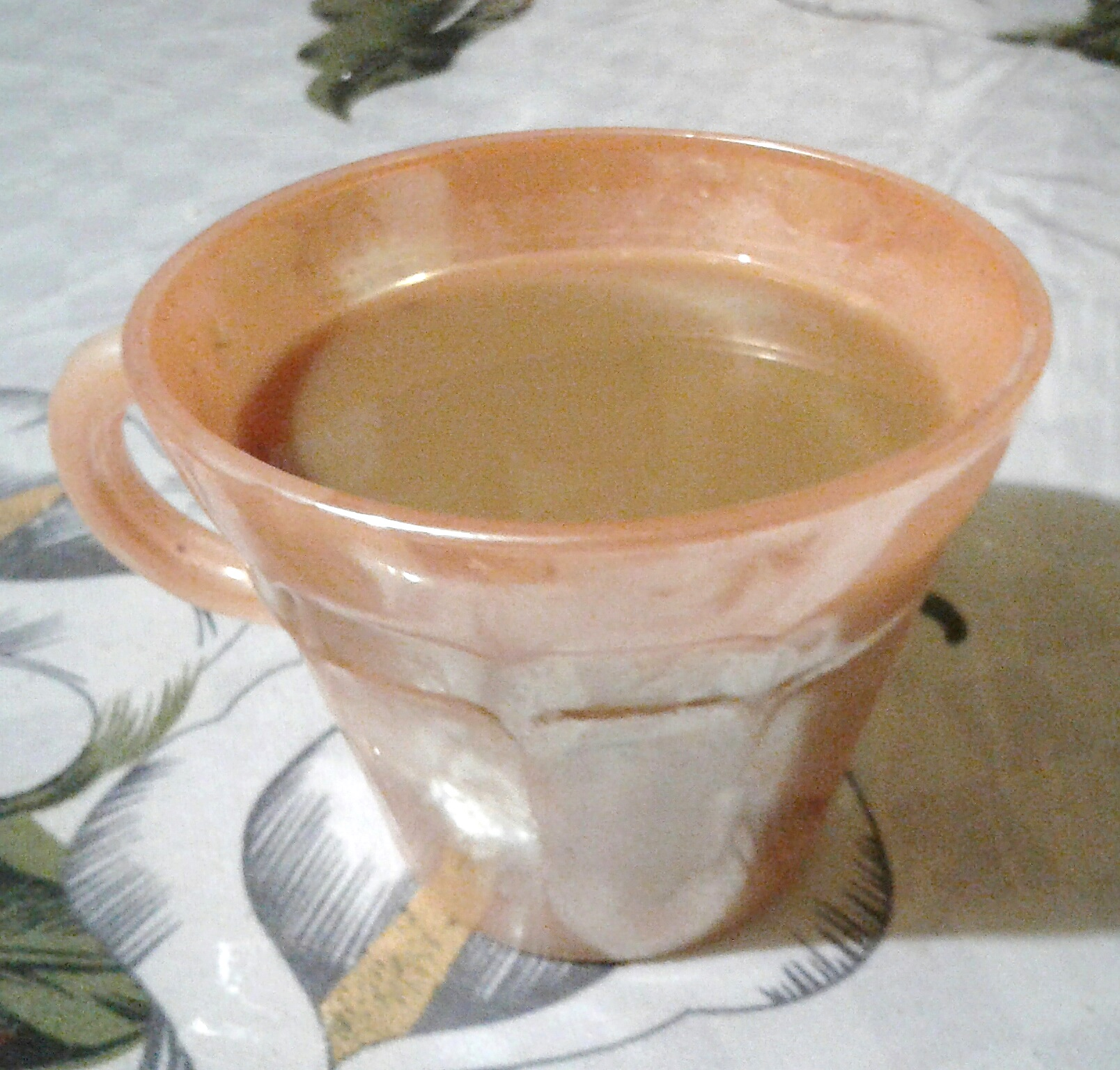 cordoba´s cup of coffe